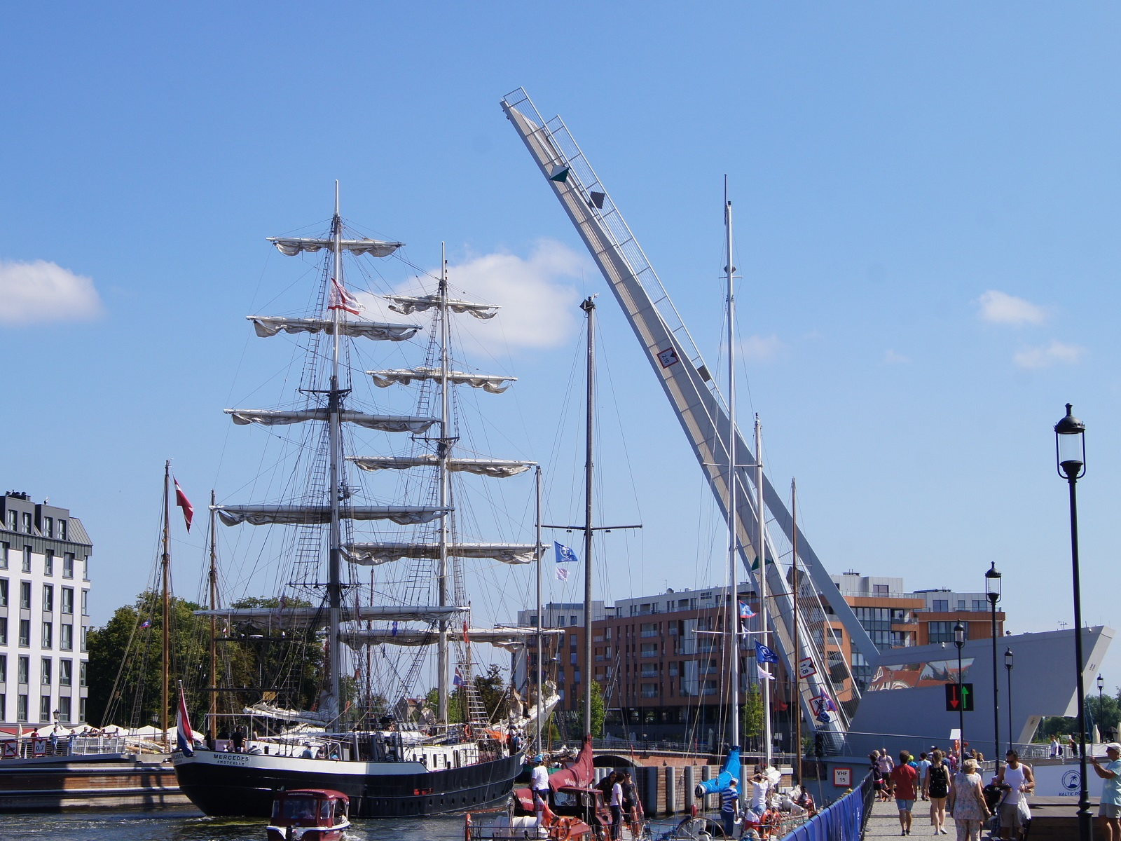 Footbridge in Gdańsk opened, the sail ship Mercedes is passing the bridge.